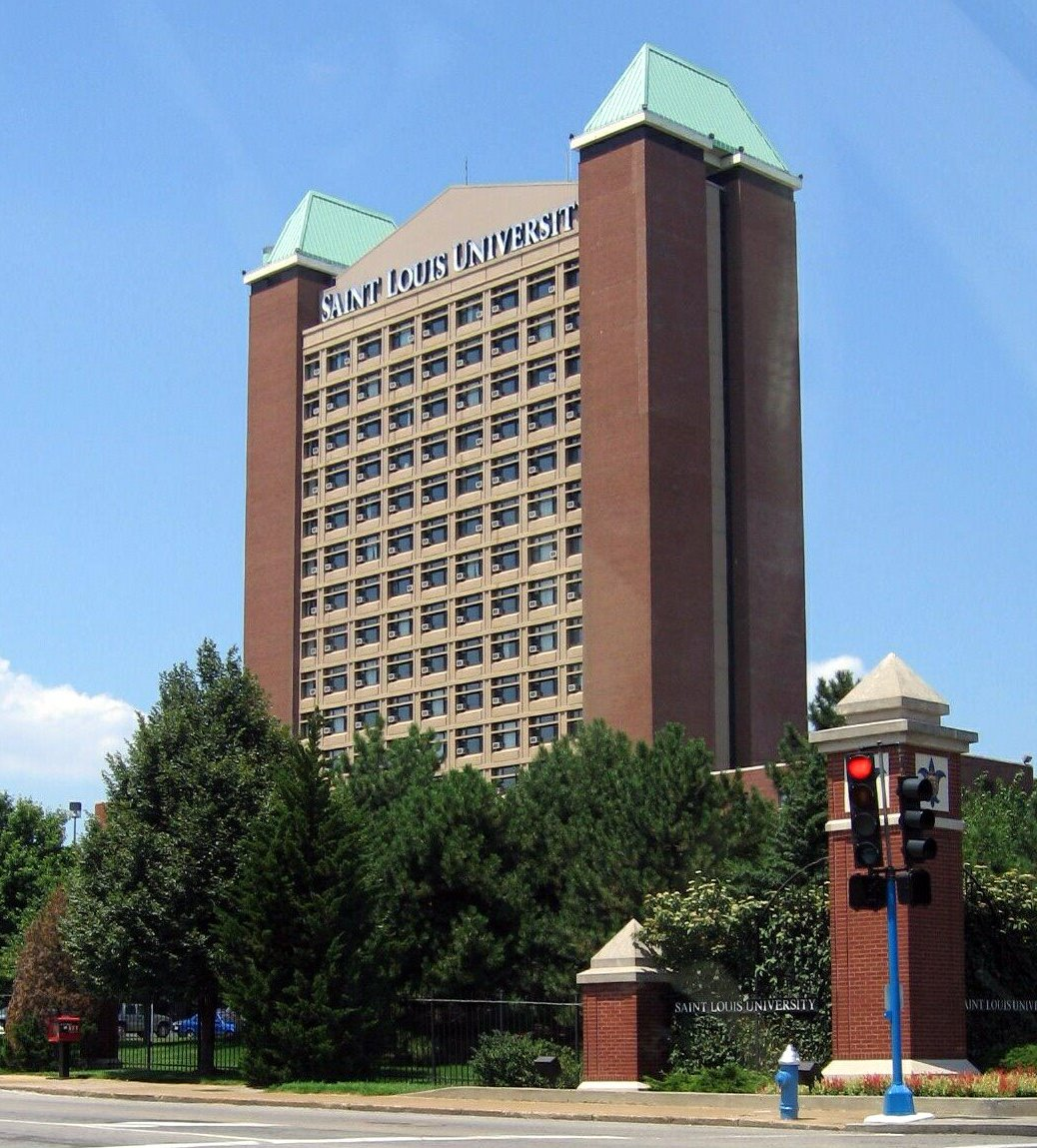 Griesedieck Hall, Saint Louis University